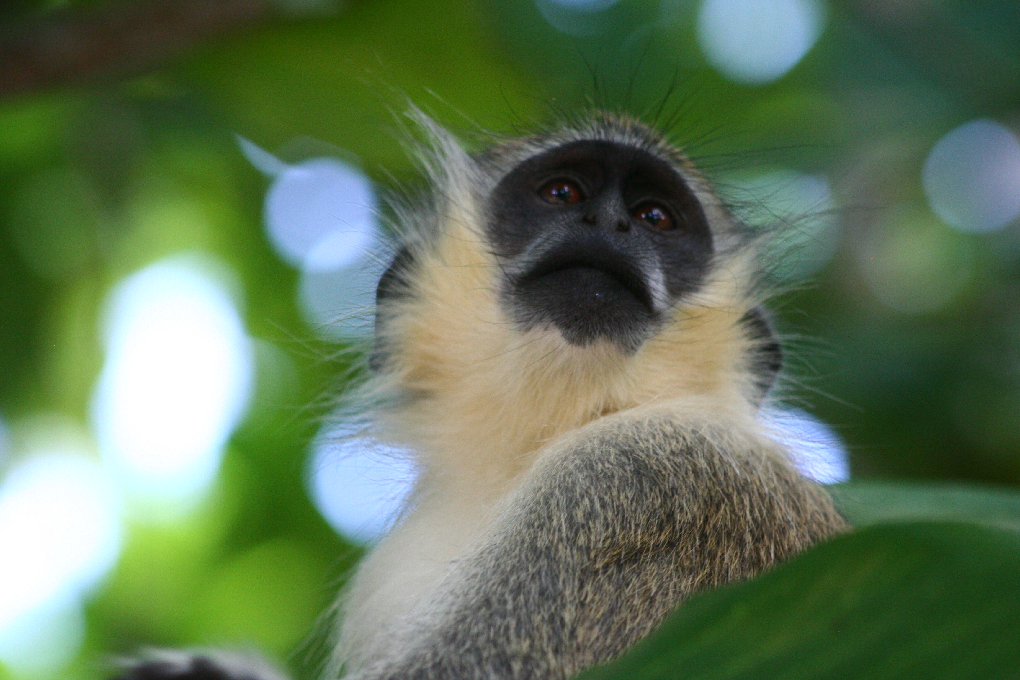 Up-close picture of a Green Monkey from Barbados.